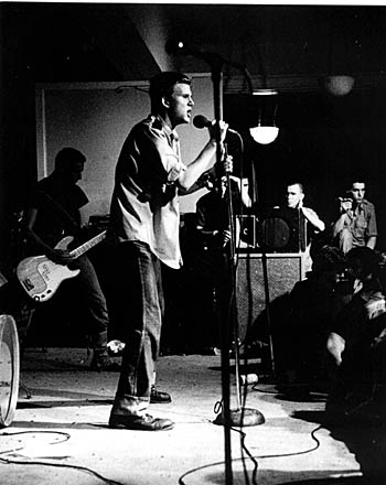 John Stabb of punk ground Government Issue singing on stage at Washington, DC's Wilson Center. In the background you can see bass player Brian Gay.